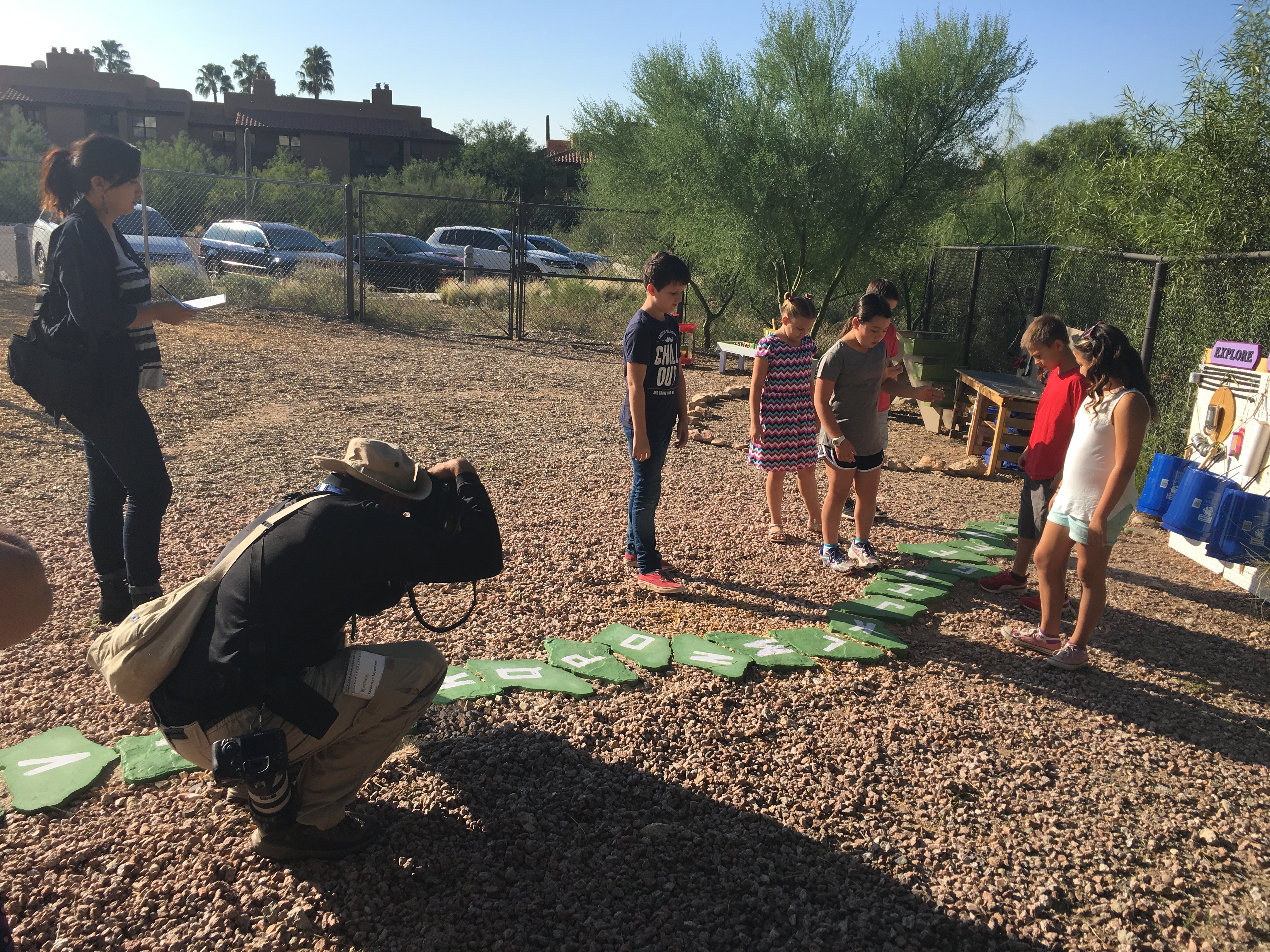 Students describe the playground that they designed for kindergarteners.